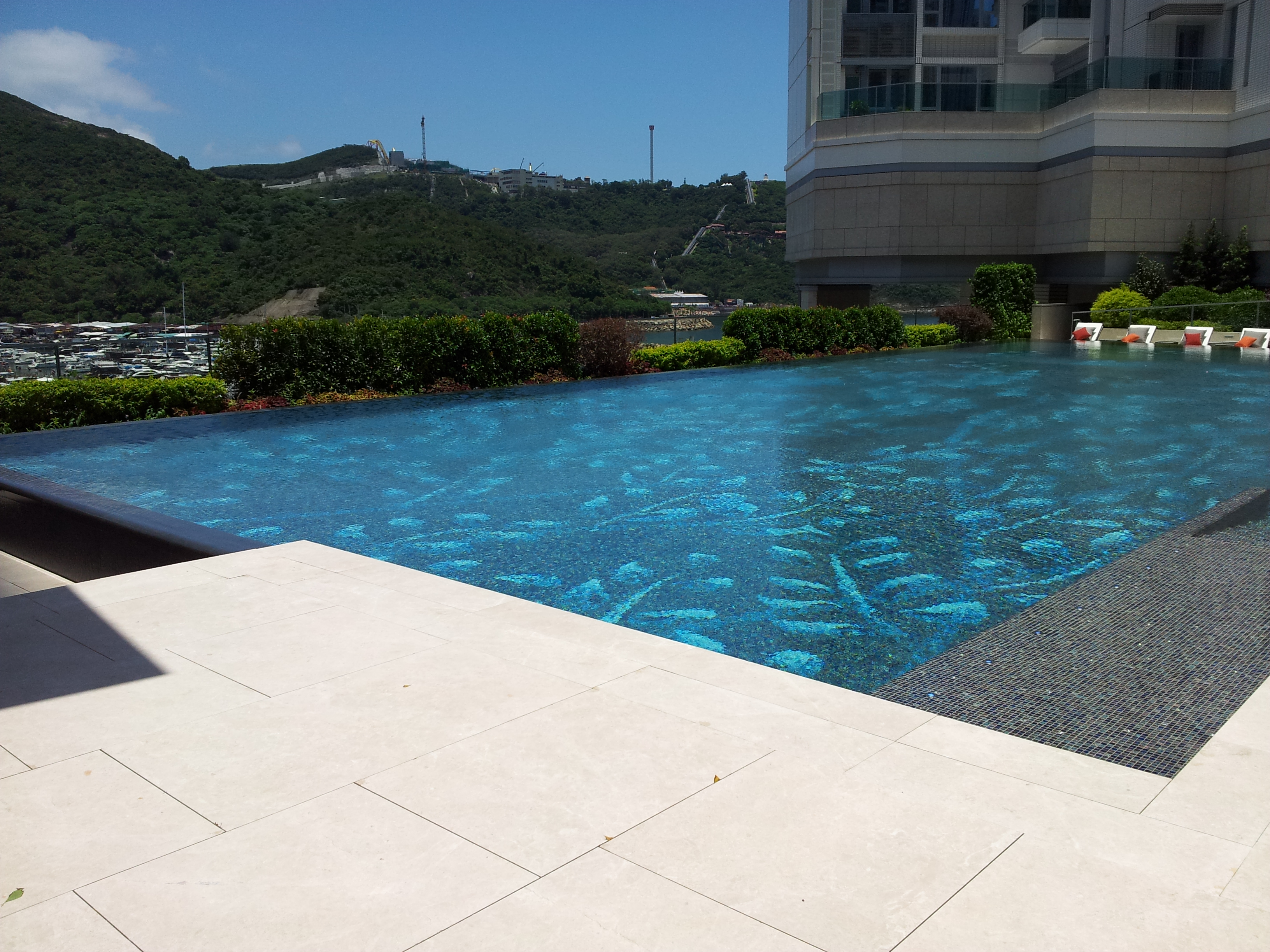 outdoor swimming pool of larvotto